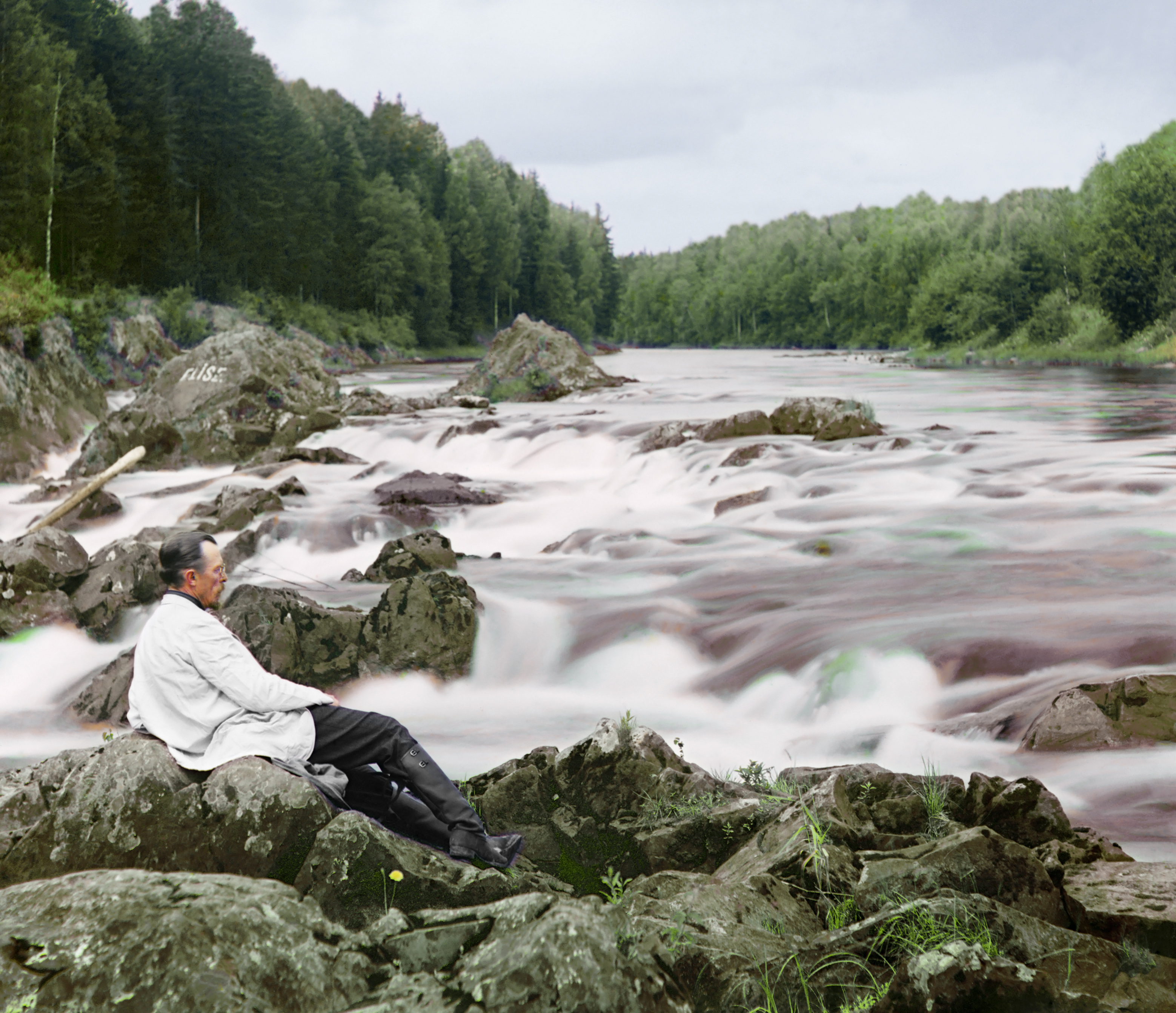 Original Description: Study near the Kivach waterfall. Suna River. Prokudin-Gorskii, reclined on boulders, near rapids.